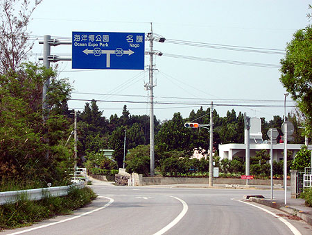 Imadomari Intersection